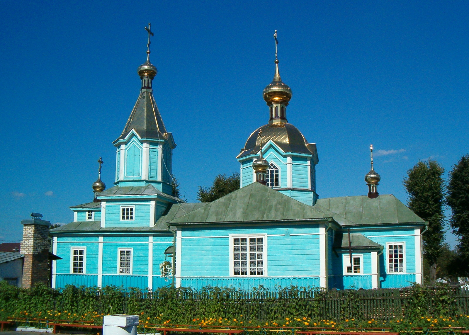 Church Olexandra Nevskoho in Kostopil